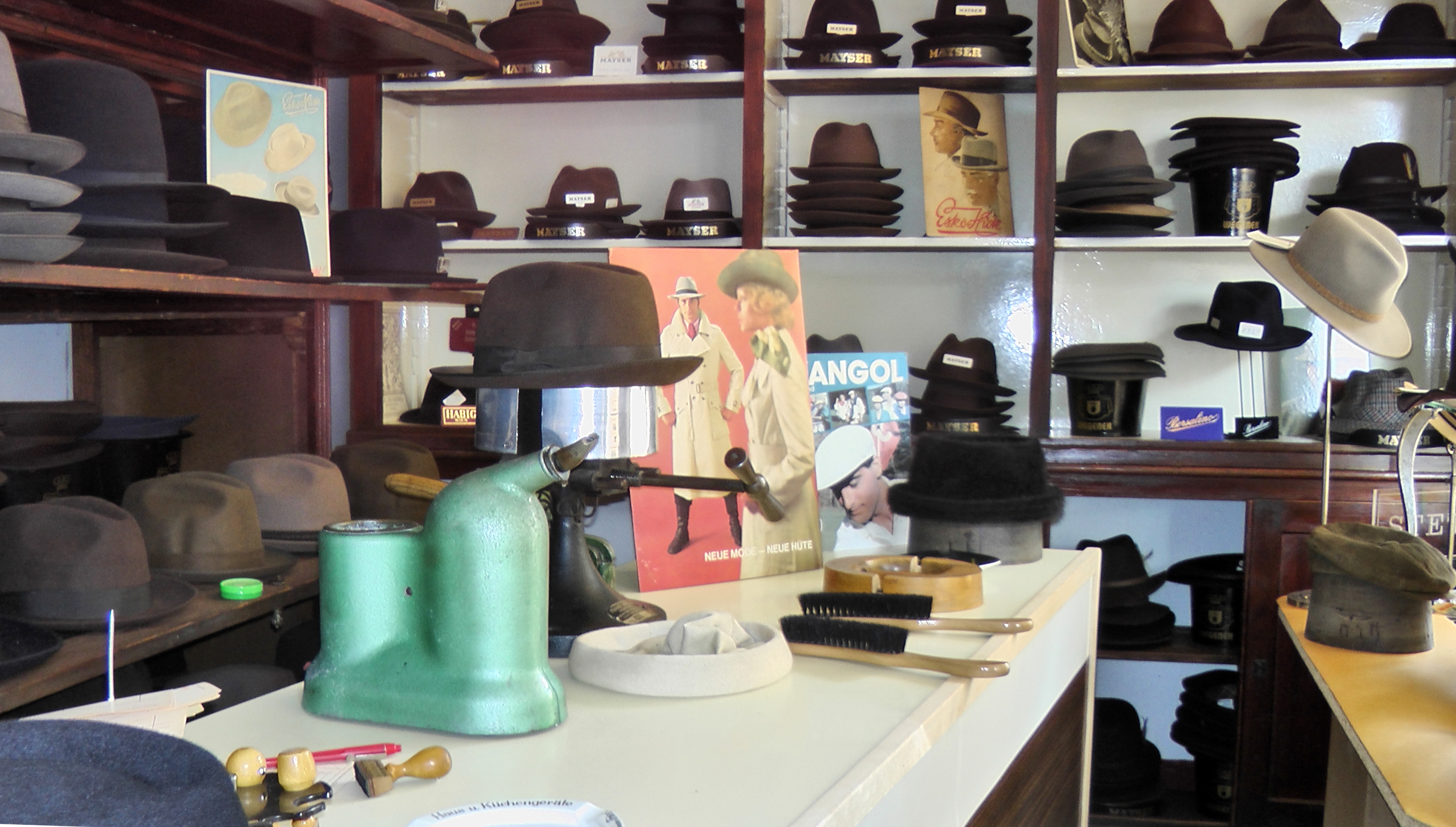 Millinery Shop Georg from Trier in the Open Air Museum Roscheider Hof, Konz